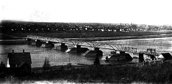 The Gunningsville Bridge, between Riverview and Moncton, New Brunswick, circa 1900.